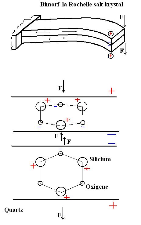 Bimorf Rochelle salt crystal.